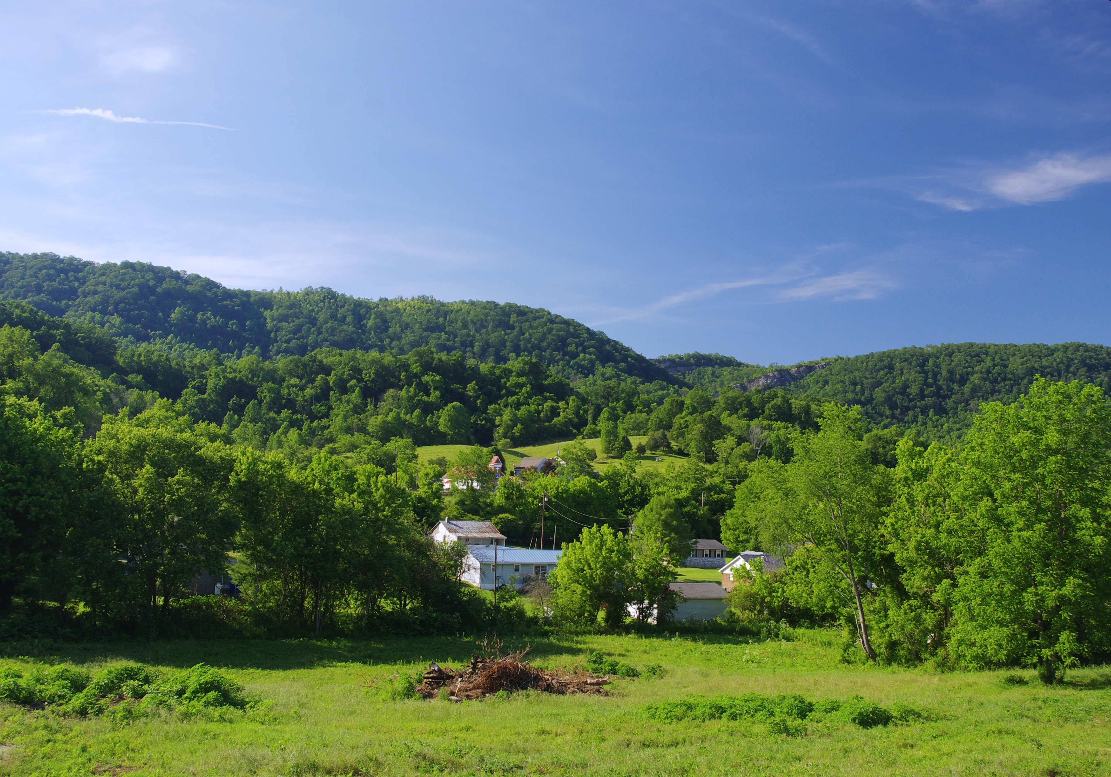 Houses in Rose Hill, Virginia, United States. Cumberland Mountain rises in the background.